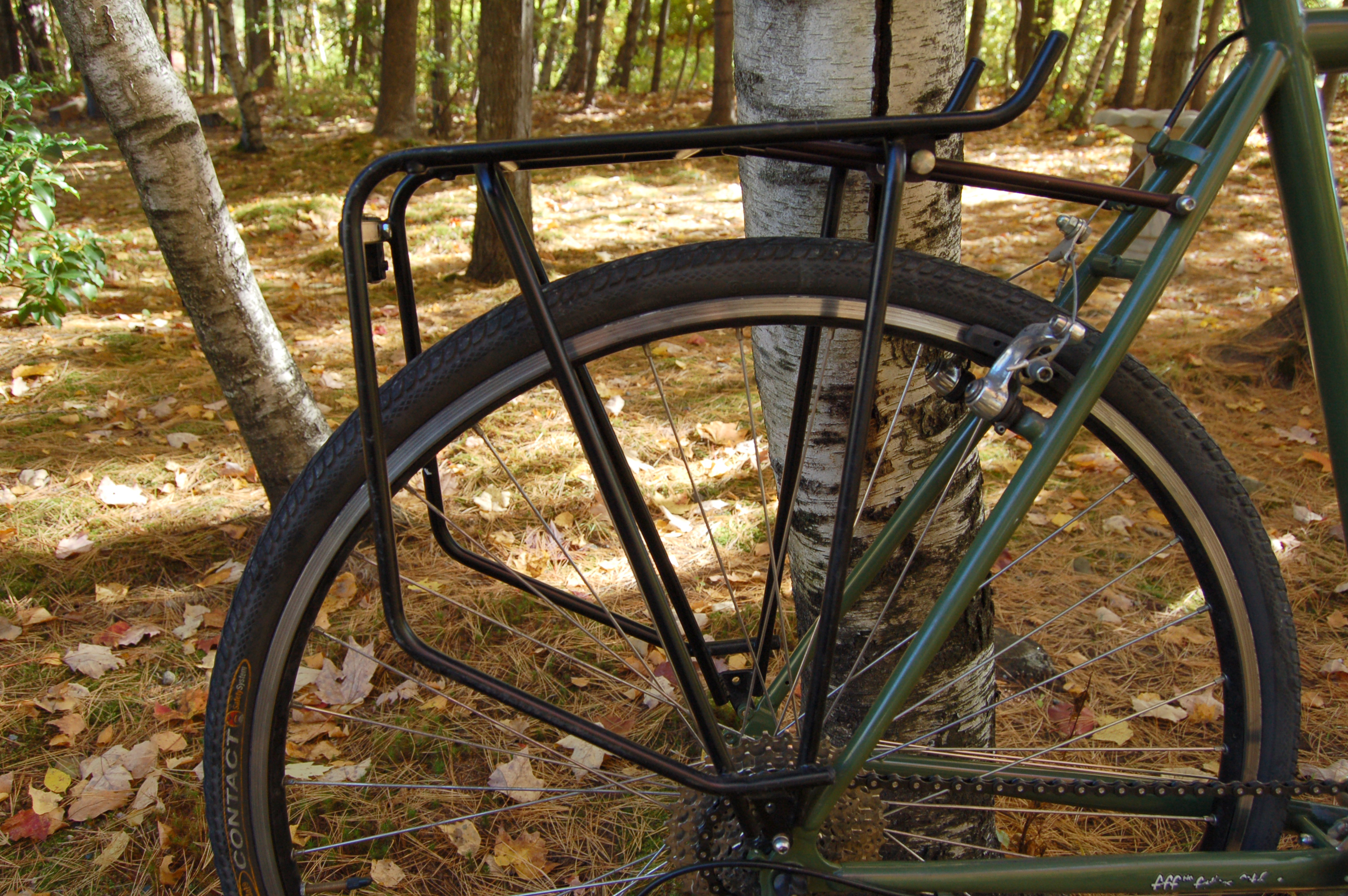 Tubus racks for cycling saddlebags on a "Long Haul Trucker" bicycle from Surly.